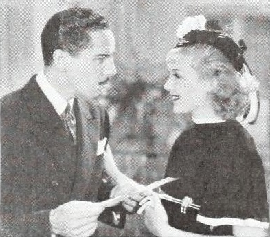 Roger Pryor e Grace Bradley in Sitting on the Moon (1936)